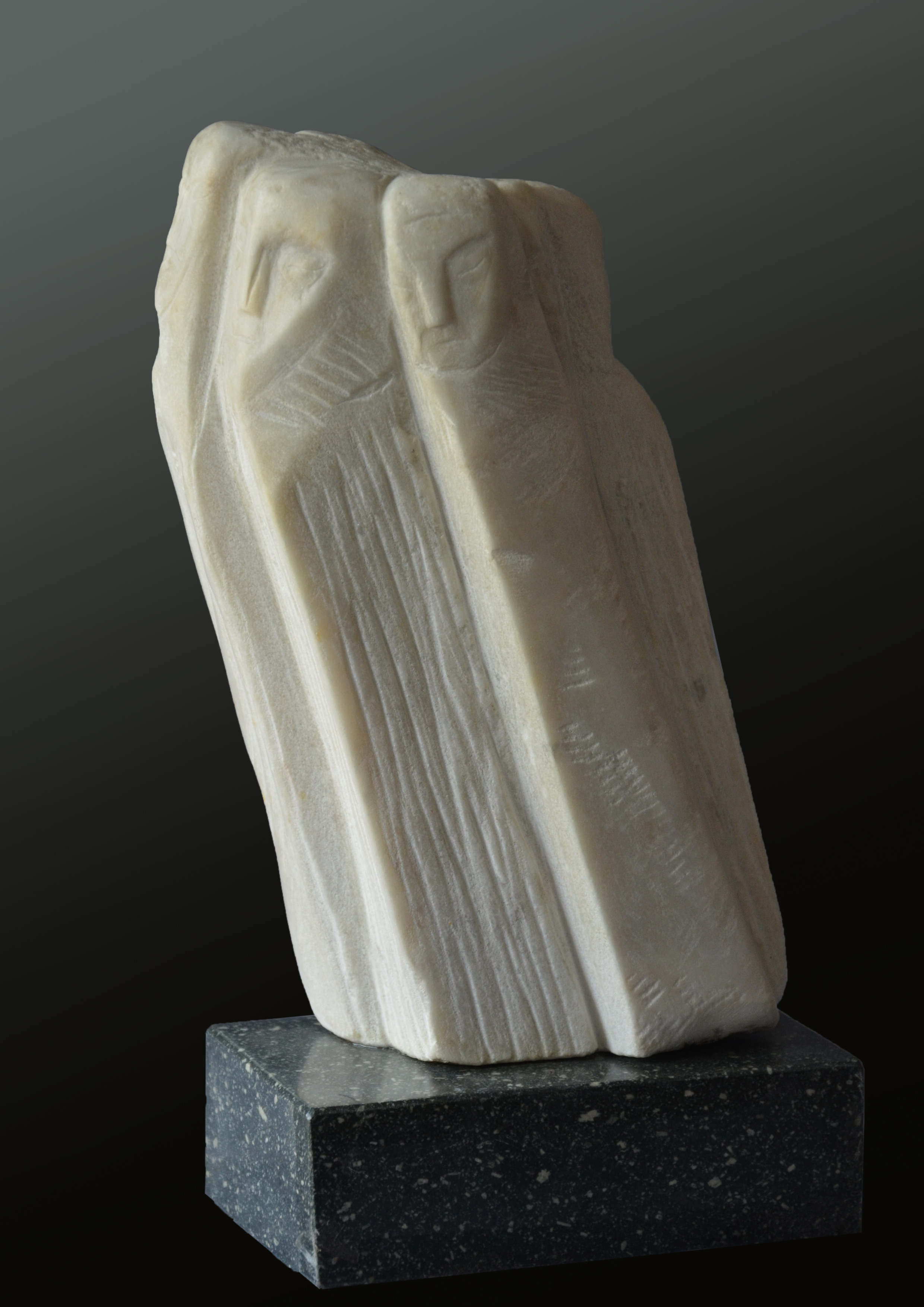 Oskrnbay Malik. "Cold December". 2012. Material: marble, granite. Size: 30x16x10.